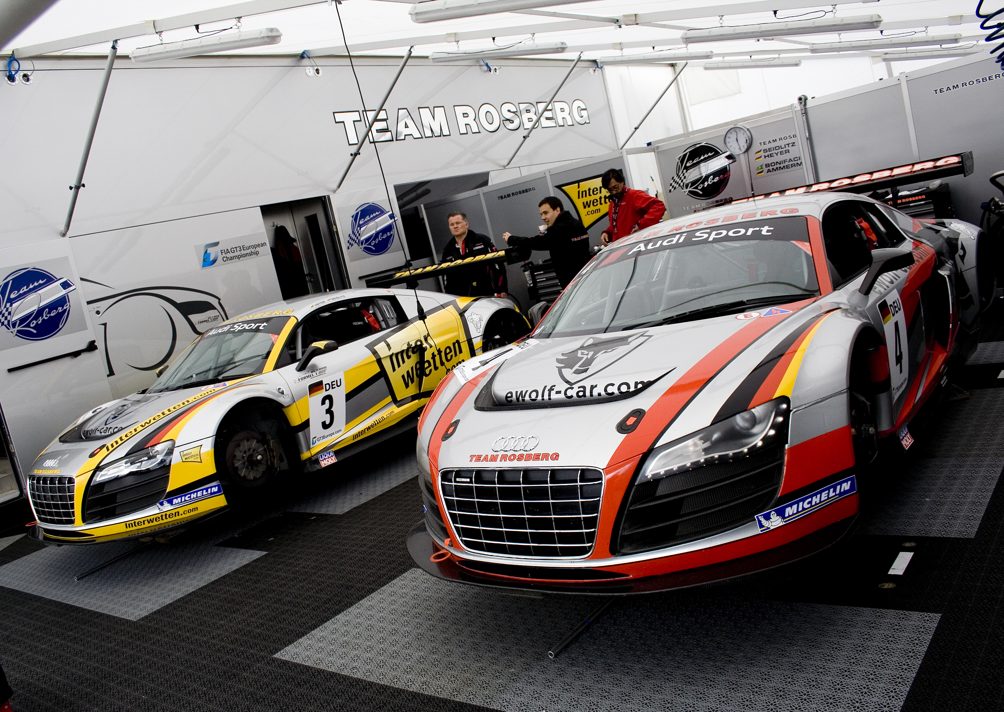 FIA GT3 European Championship - Audi R8 LMS' (Team Rosberg)